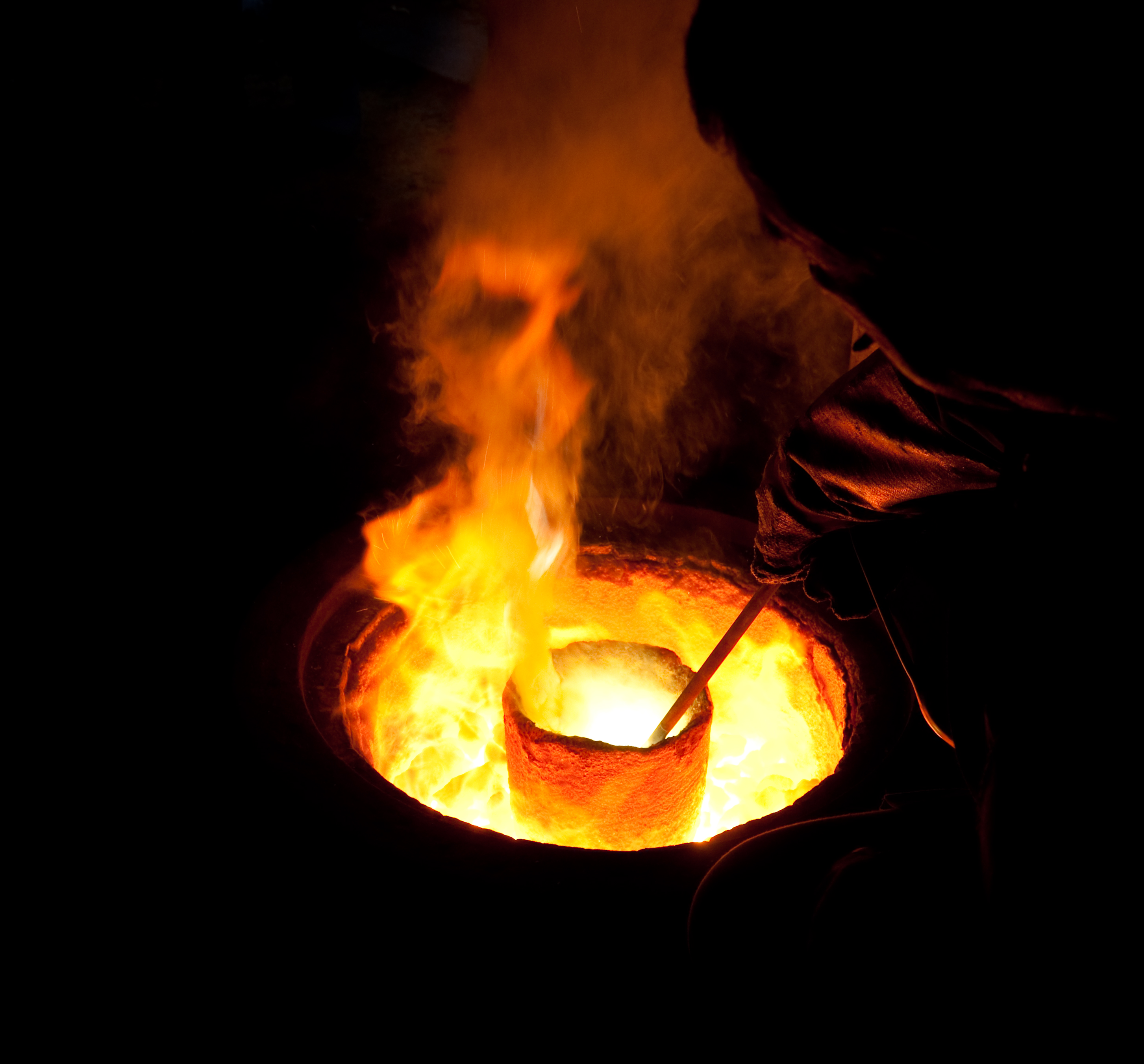 Melting metal in a ladle for casting